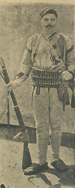 Portrait of bulgarian revolutionary Atanas Gradoborliyata, died in 1903